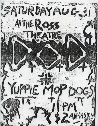 Flyer from 1985 Ross Theater show by DOD and Yuppie Mop Dogs, scanned in 2005.